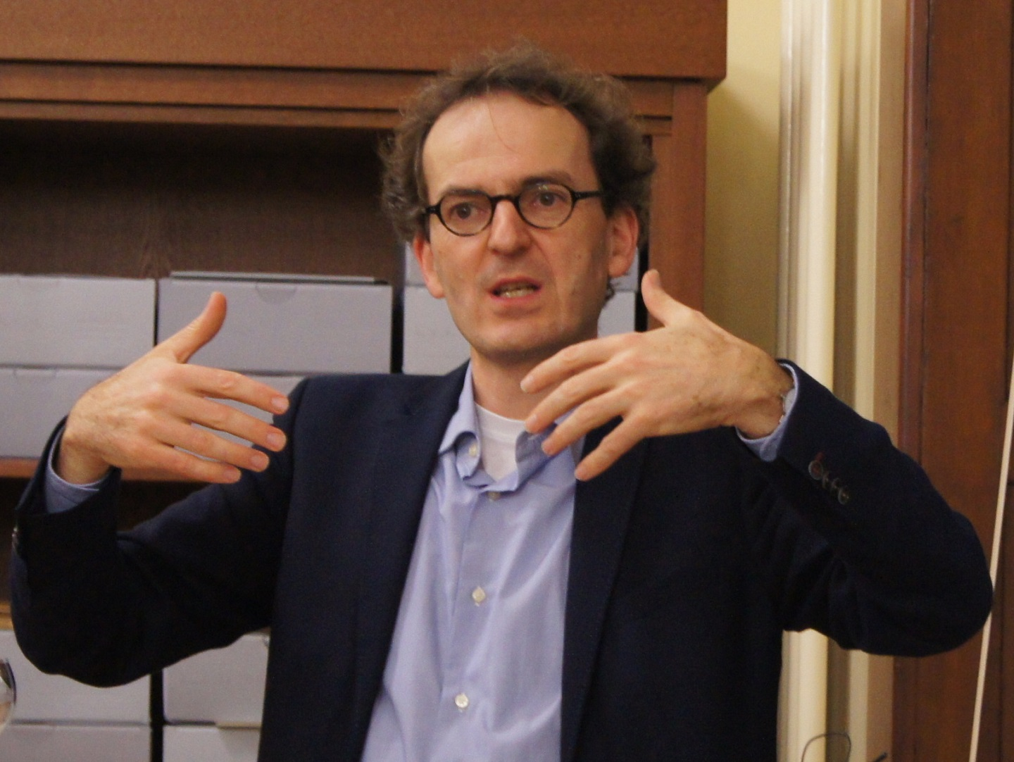 Ludger Lieb, medivial studies, Heidelberg, 2017